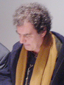 Jean-François Chevrier after a conference at Centre Georges Pompidou, Paris, signing the Jeff Wall monograph written by J-F Chevrier.